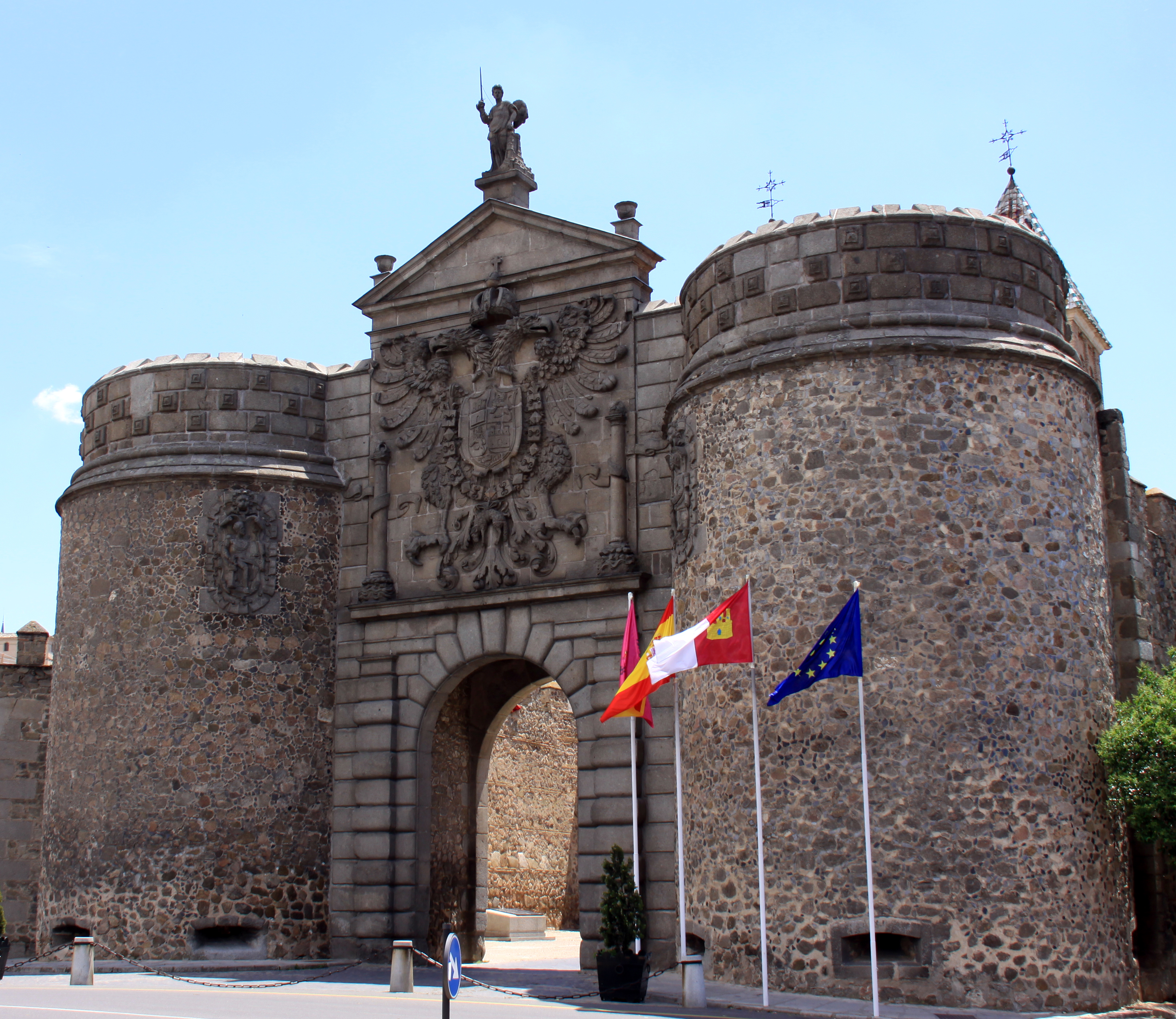 Toledo: Puerta de Bisagra Nueva.